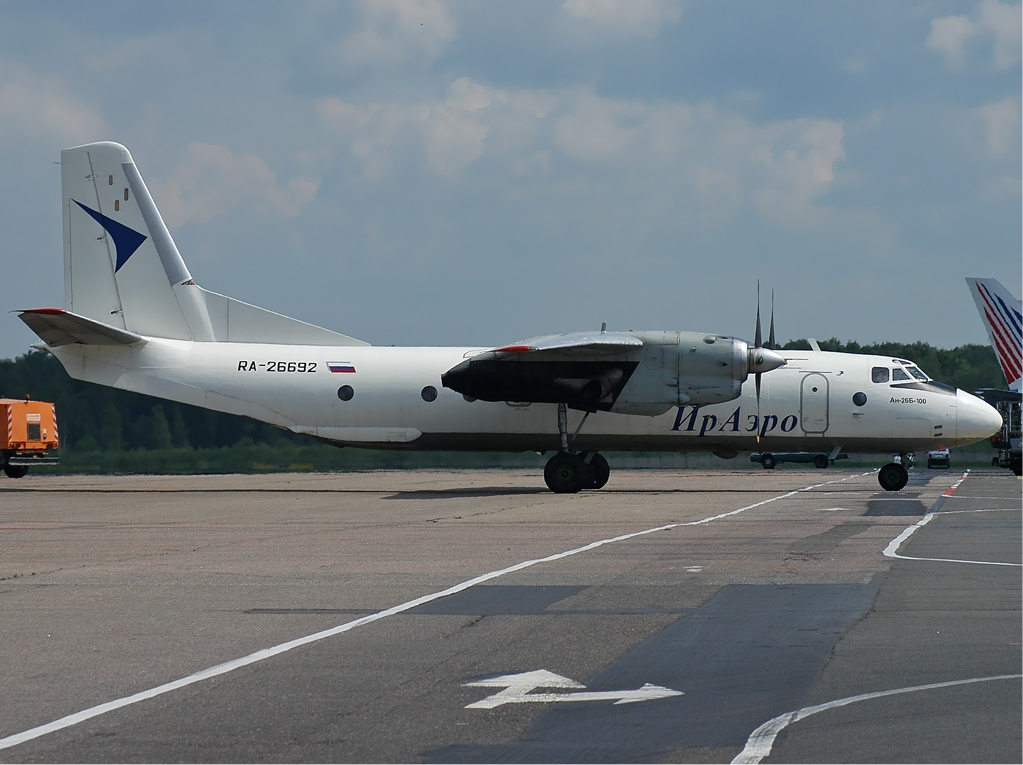 IrAir Antonov An-26